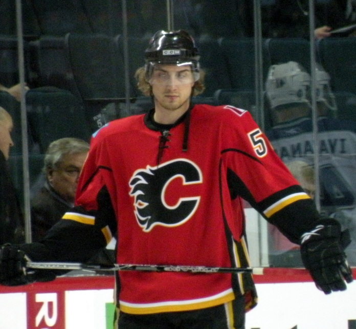 Calgary Flames defenceman Matt Pelech during warmup prior to his 2nd career NHL game, in Calgary, against the Los Angeles Kings.